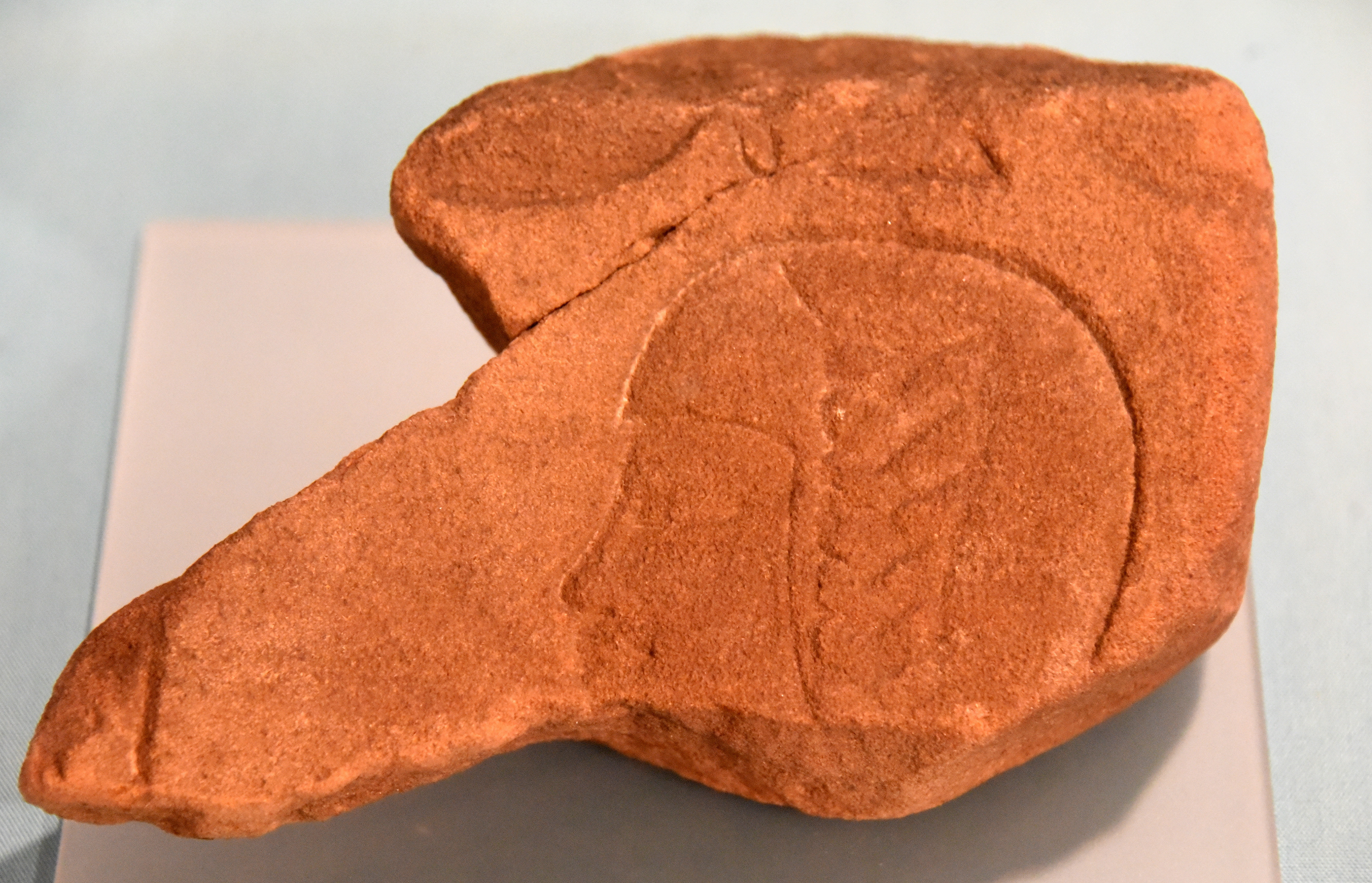 Sandstone fragment from the temple of Amenhotep III showing a young prince, probably Amenhotep IV (Akhenaten) before he became a king. From Thebes, Egypt. The Petrie Museum of Egyptian Archaeology, London. With thanks to the Petrie Museum of Egyptian Archaeology, UCL.